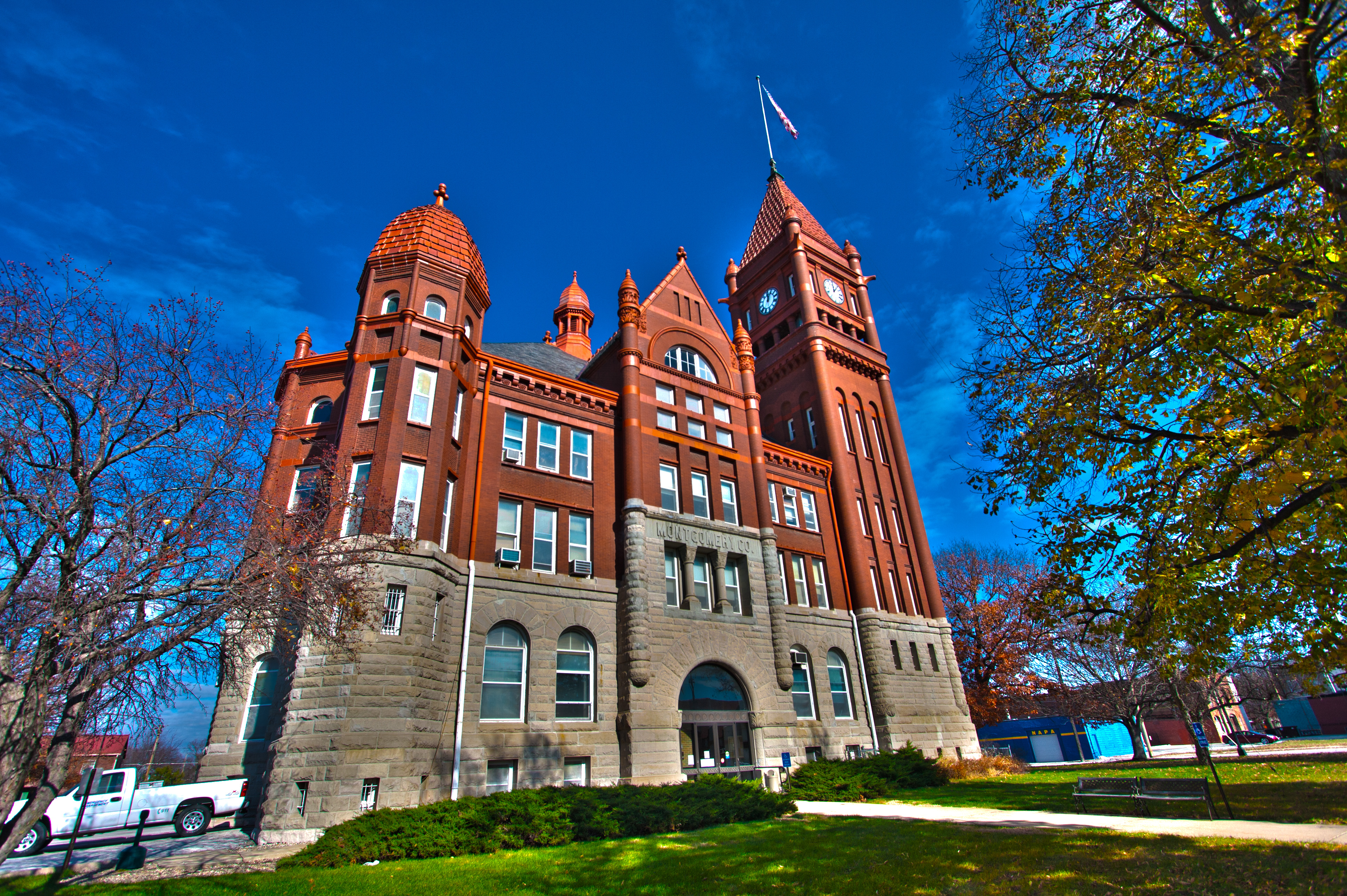 Montgomery County, Iowa Courthouse